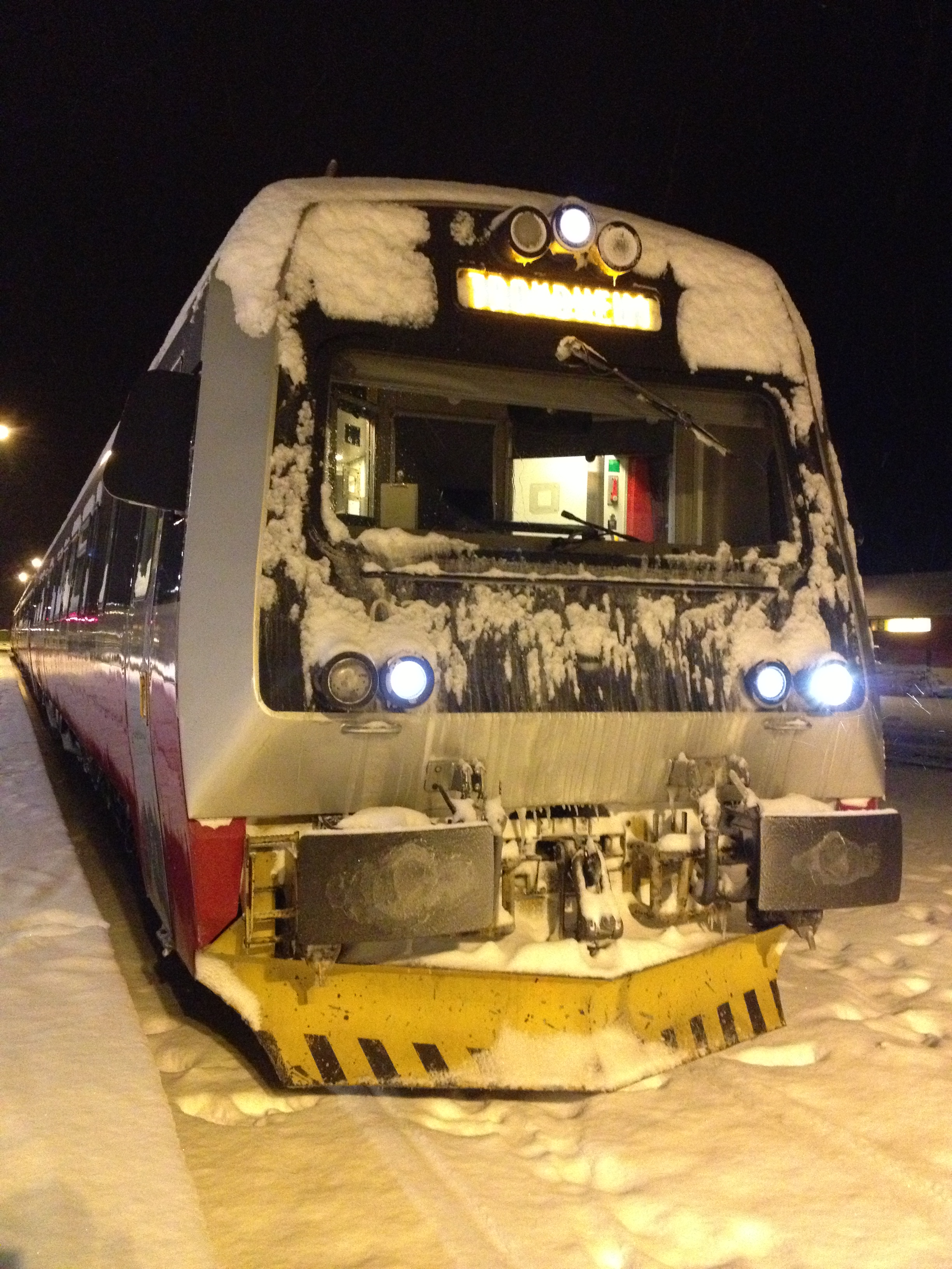 Norwegian State Railways (NSB) Class 92 at Røros Station